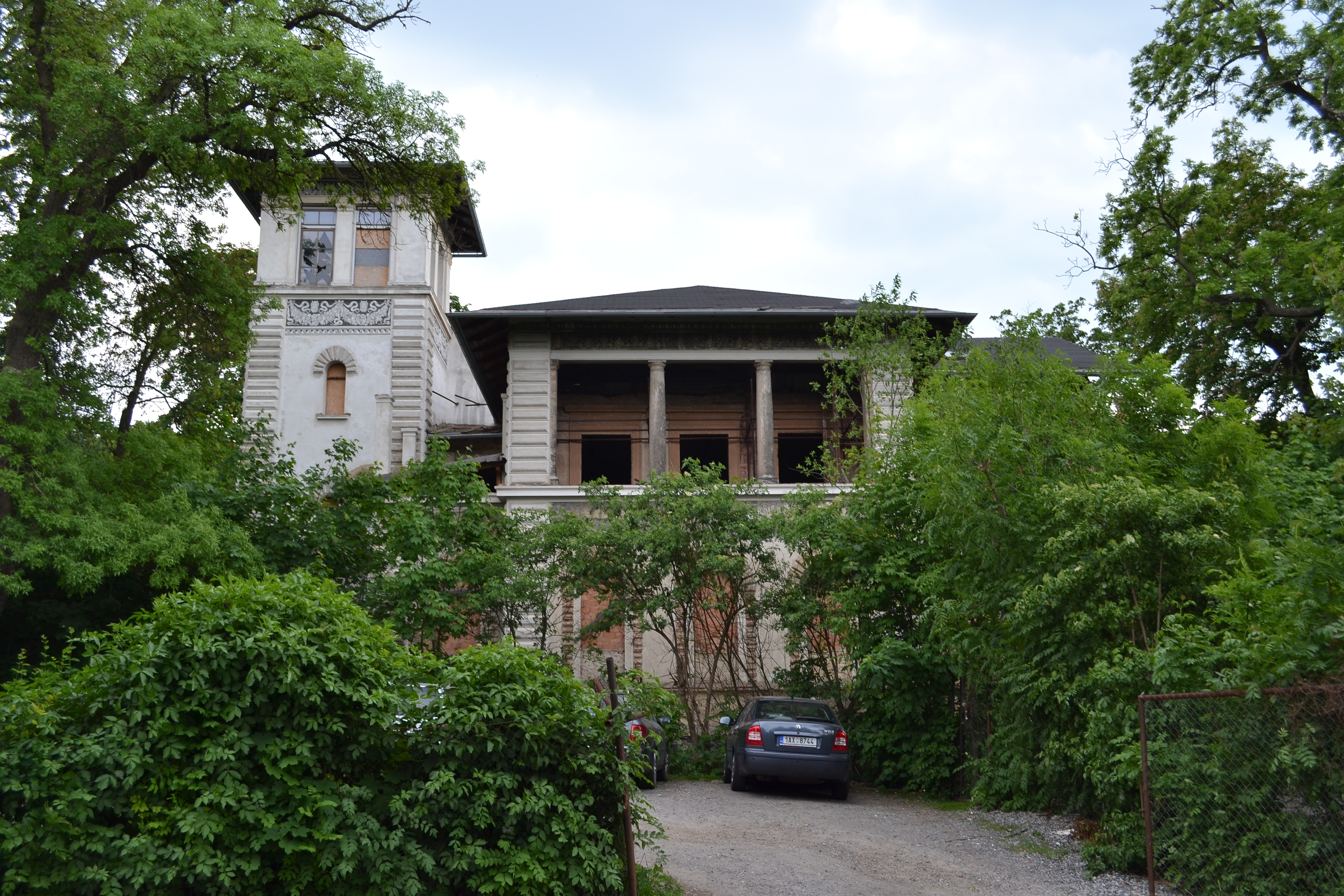 Vila of Schubert, Libocká 276/9, Prague, Czech Republic.